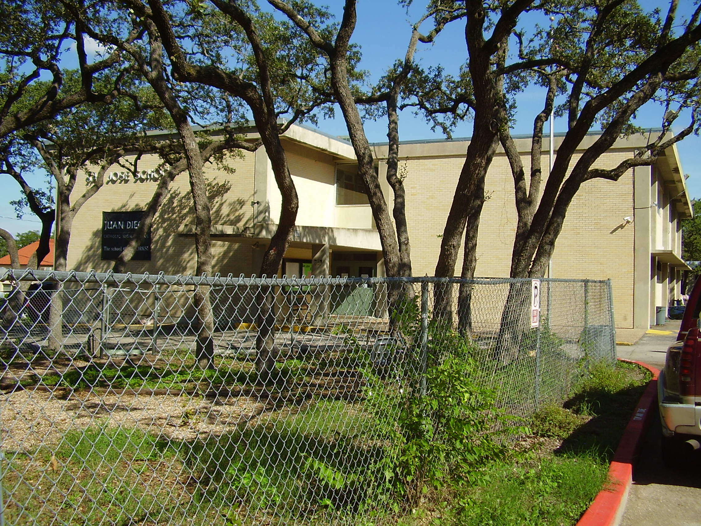 San Juan Diego Catholic High School in Austin, formerly the San José School